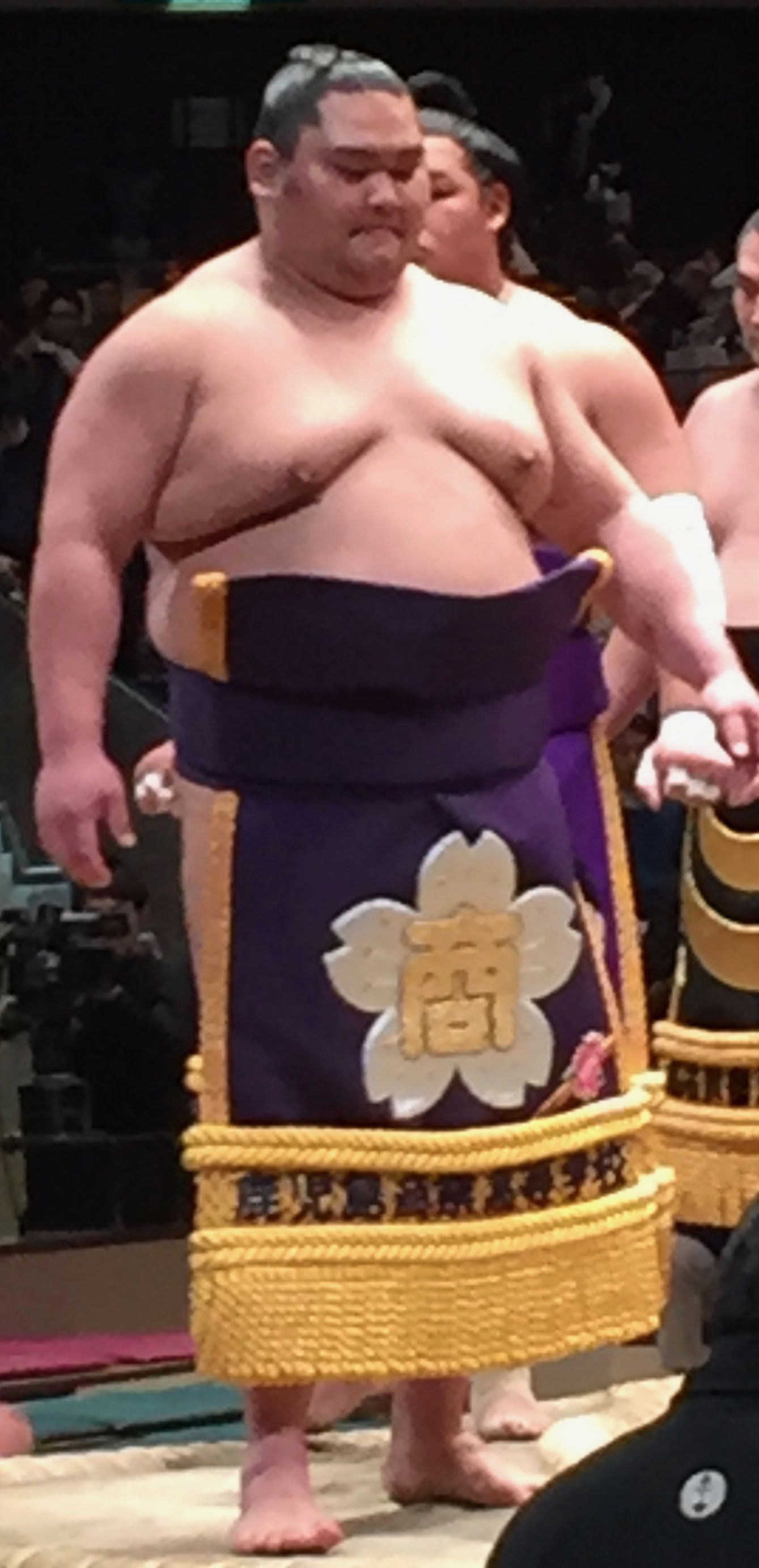 taken at Jan 2017 tournament